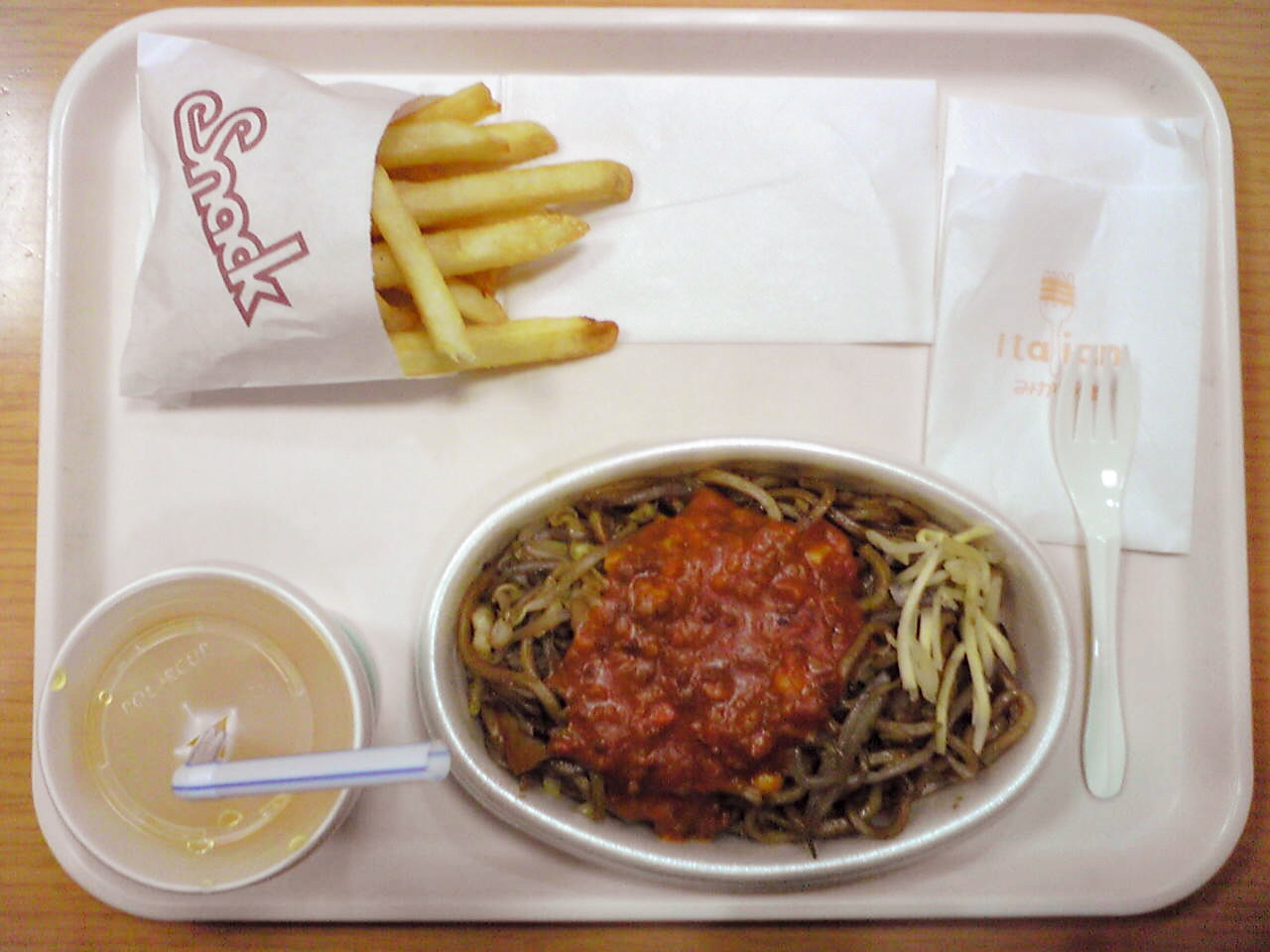 This picture shows a typical set menu including the meal which is called "ITARIAN(Italian)" . It is served at the fast food chain "Mikazuki". The set menu includes "ITARIAN", fried potatoes and a soft drink. "ITARIAN" is popular meal in the particular area in Niigata prefecture, Japan. It is a fried noodle with sauce such as meat sauce. In this area, there are some chain stores that specially serve "ITARIAN". There are mainly two fast food chain which serve "ITARIAN" specially. One is "Mikazuki" and another is "Friend".